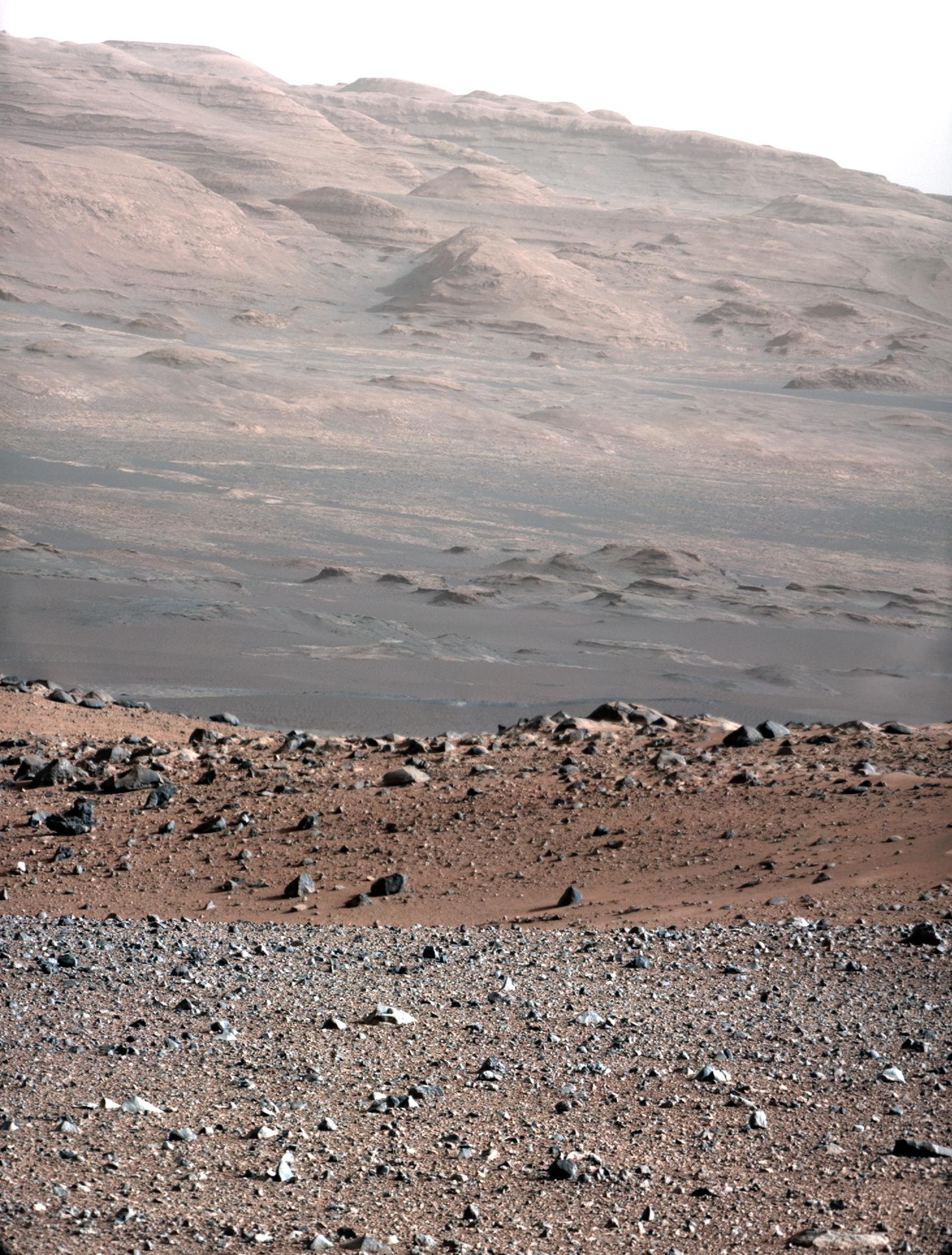 This image is from a test series used to characterize the 100-millimeter Mast Camera on NASA's Curiosity rover. It was taken on Aug. 23, 2012, and looks south-southwest from the rover's landing site. The 100-millimeter Mastcam has three times better resolution than Curiosity's 34-millimeter Mastcam, though it has a narrower field of view. For comparison, see PIA16103. The gravelly area around Curiosity's landing site is visible in the foreground. Farther away, about a third of the way up from the bottom of the image, the terrain falls off into a depression (a swale). Beyond the swale, in the middle of the image, is the boulder-strewn, red-brown rim of a moderately-sized impact crater. Farther off in the distance, there are dark dunes and then the layered rock at the base of Mount Sharp. Some haze obscures the view, but the top ridge, depicted in this image, is 10 miles (16.2 kilometers) away. Scientists enhanced the color in one version to show the Martian scene under the lighting conditions we have on Earth, which helps in analyzing the terrain. A raw version is also available. An annotated version of the image indicates the distances to different features. They were calculated using a computer program that analyzes data from the High Resolution Imaging Science Experiment (HiRISE) camera aboard NASA's Mars Reconnaissance Orbiter. To see a close-up of the layered buttes of Mount Sharp, see PIA16105. JPL manages the Mars Science Laboratory/Curiosity for NASA's Science Mission Directorate in Washington. The rover was designed, developed and assembled at JPL, a division of the California Institute of Technology in Pasadena. For more about NASA's Curiosity mission, visit: and